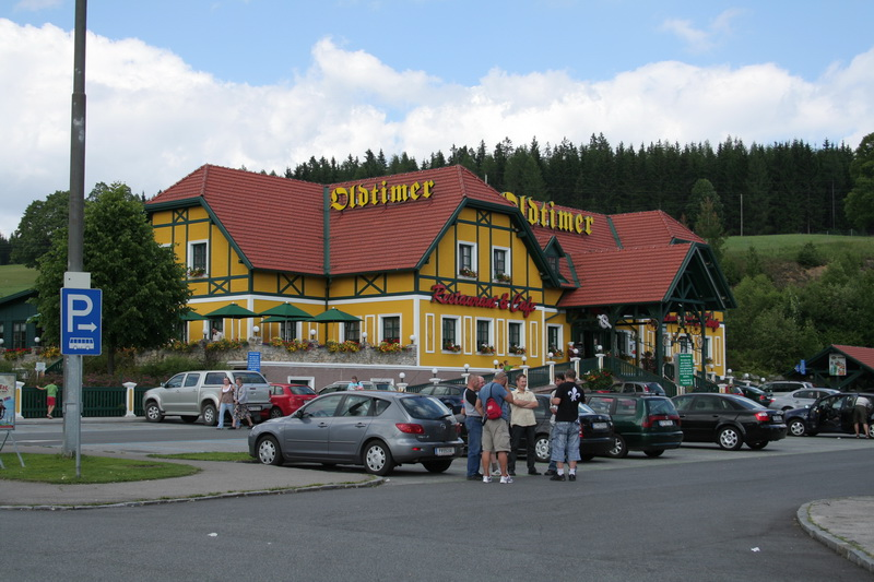 Rest-station "Pack" in Austria (Highway A2)